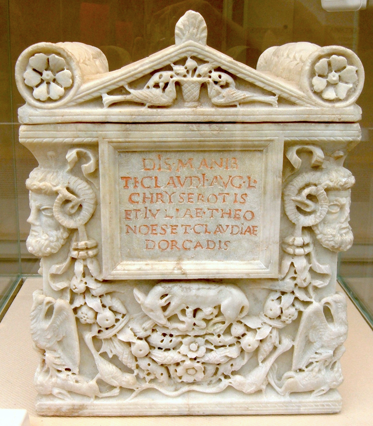 Urn for the ashes of Tiberius Claudius Chryseros and two females: Iulia Theonoes and Claudia Dorcas, probably his wife and daughter. The reliefs on the side depict Ammone with guarlands of fruit, underlining the sacral nature of the object.CIL VI 5318: Dis Manib(us)/ Ti(beri) Claudi Aug(usti) l(iberti)/ Chryserotis/ et Iuliae Theo/noes et Claudiae / Dorcadis